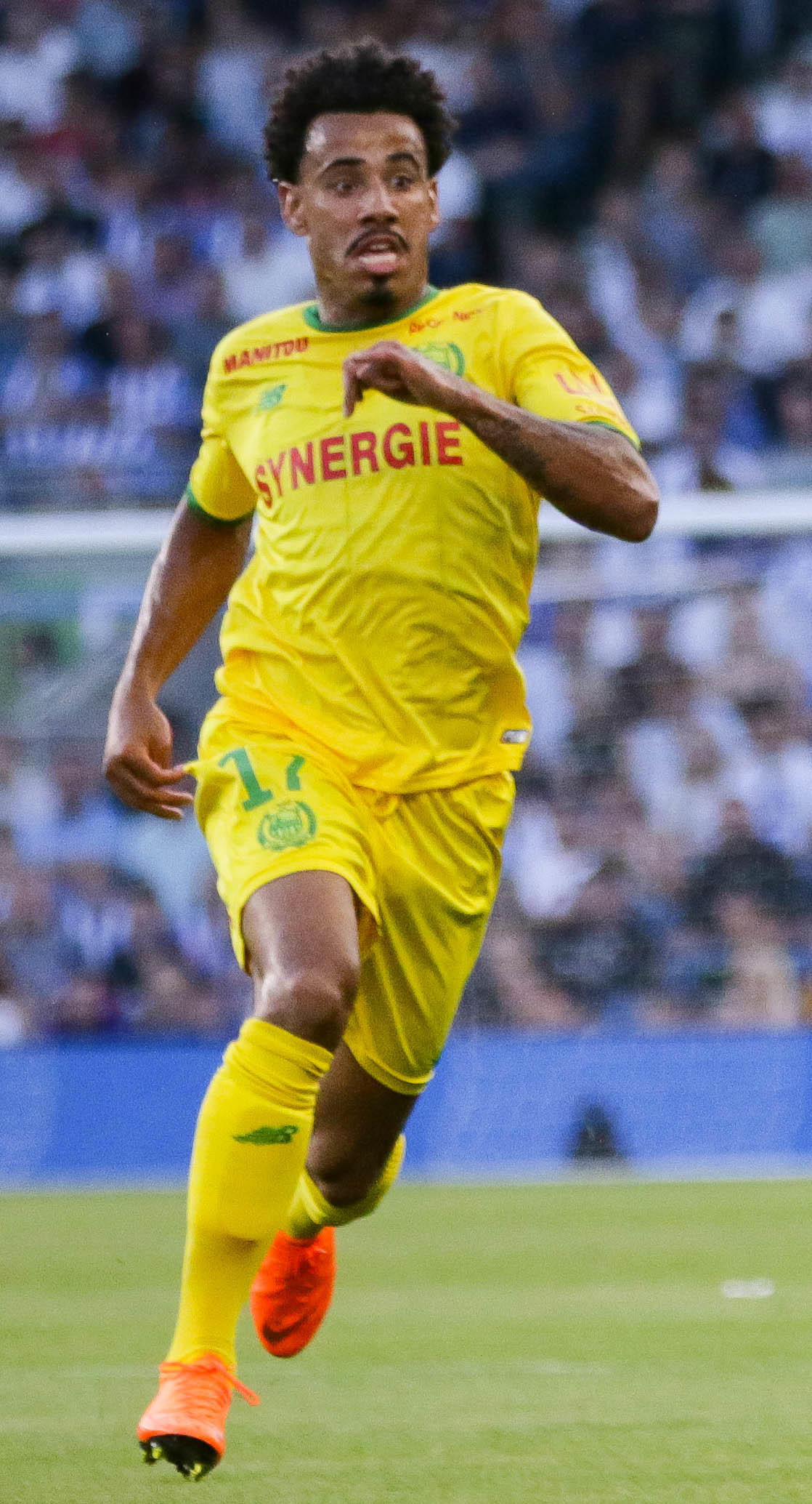 BHA v FC Nantes pre season 03 08 2018-411.jpg